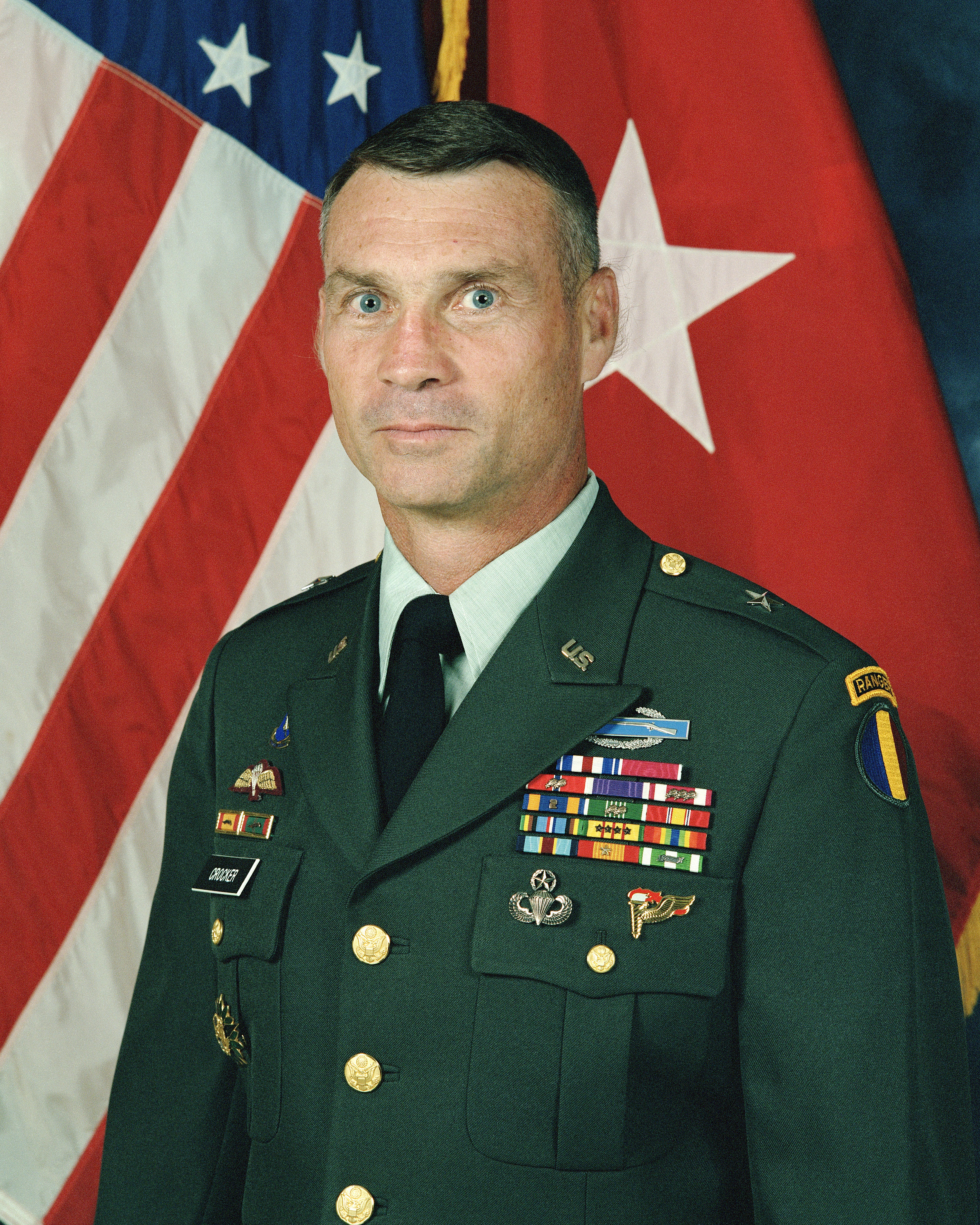 Brigadier General George Crocker, US Army